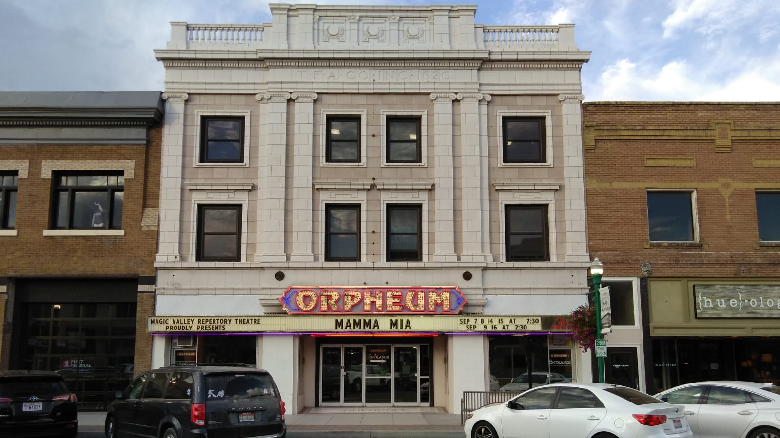 Picture of Orpheum Theatre which still stands in the Historic District of Downtown Twin Falls Idaho. The Theatre opened with 900 seats owned by Twin Falls Amusement Company Inc. and operated by A.R. Anderson.